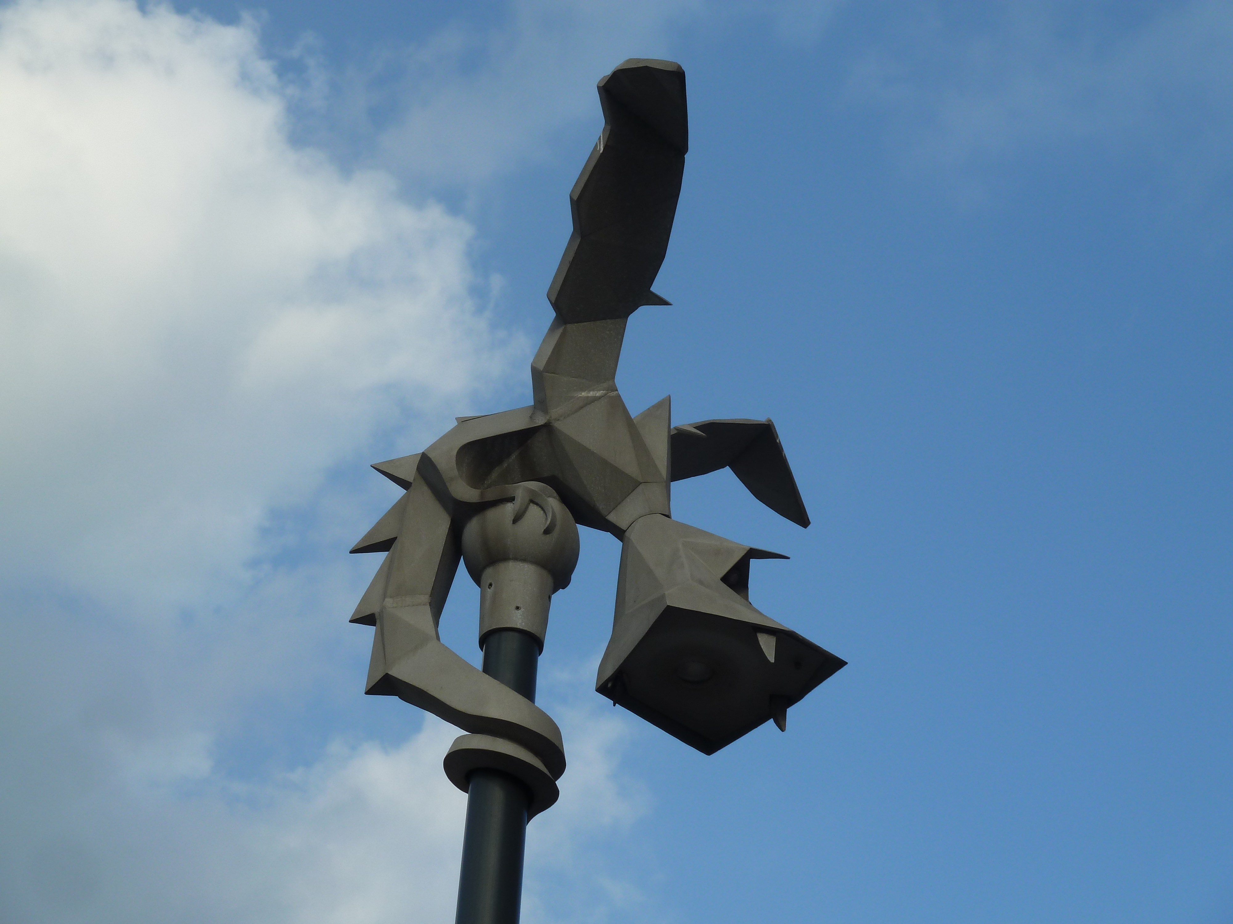 The street lights in the Amerika Plads area of Copenhagen, Denmark